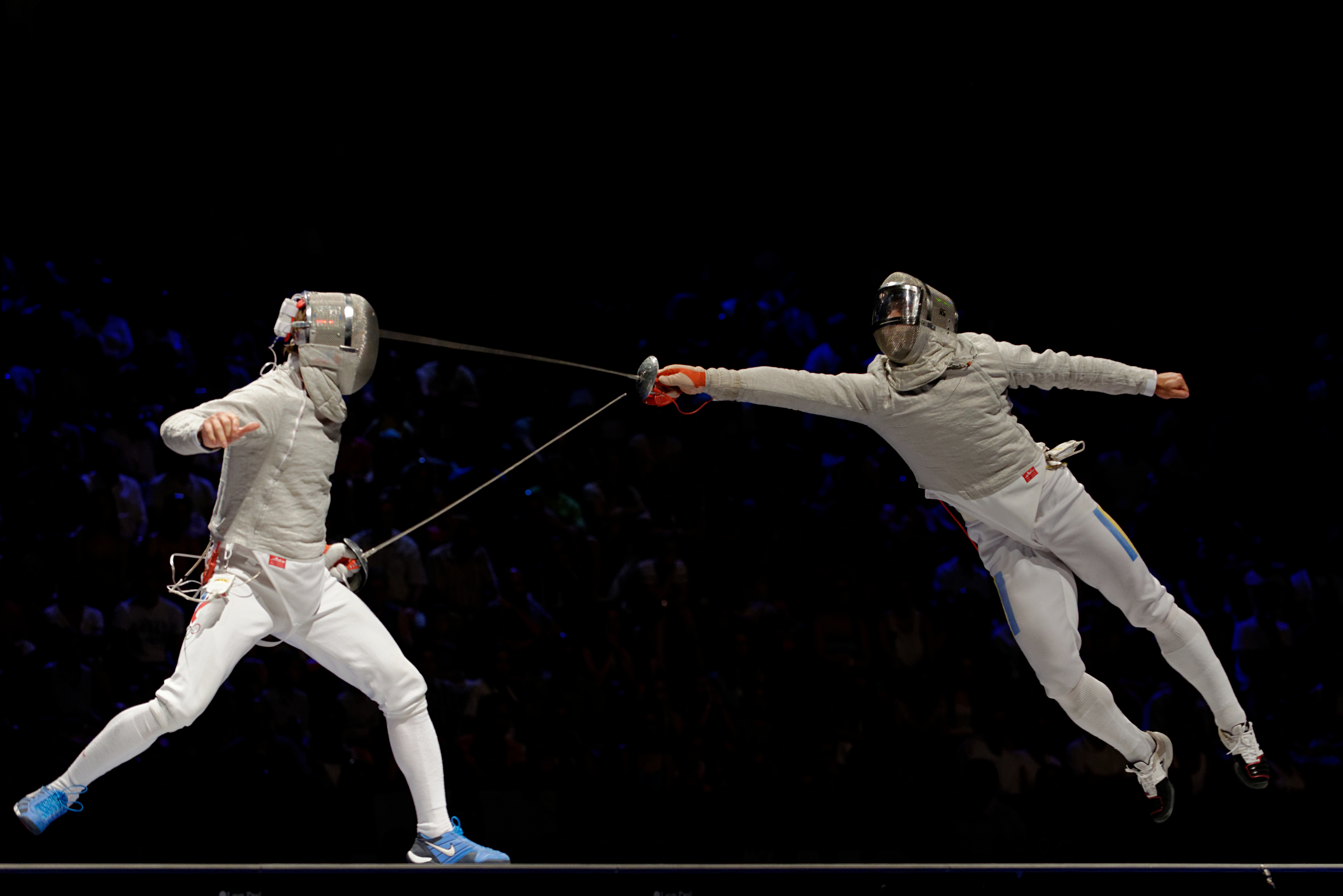 Romania's Tiberiu Dolniceanu (R) performs a flying lunge against Russia's Veniamin Reshetnikov (L) during the men's sabre semi-finals of the 2013 World Fencing Championships 2013 at Syma Hall in Budapest, 10 August 2013.